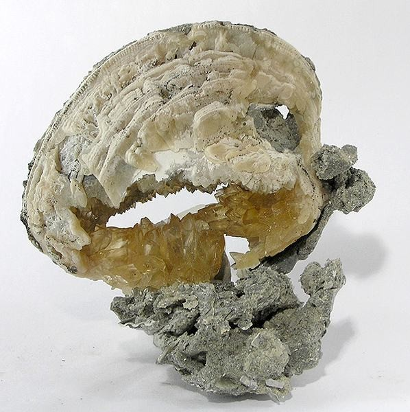 Calcite Locality: Rucks Pit, Fort Drum, Okeechobee County, Florida, USA (Locality at ) Size: 9.6 x 9.4 x 6.5 cm. This fascinating specimen formed when gemmy calcite crystals grew in the natural pocket formed by a buried fossil clamshell. The interior of the shell is now full of these golden crystals. This is a large and very complete example of this phenomenon!